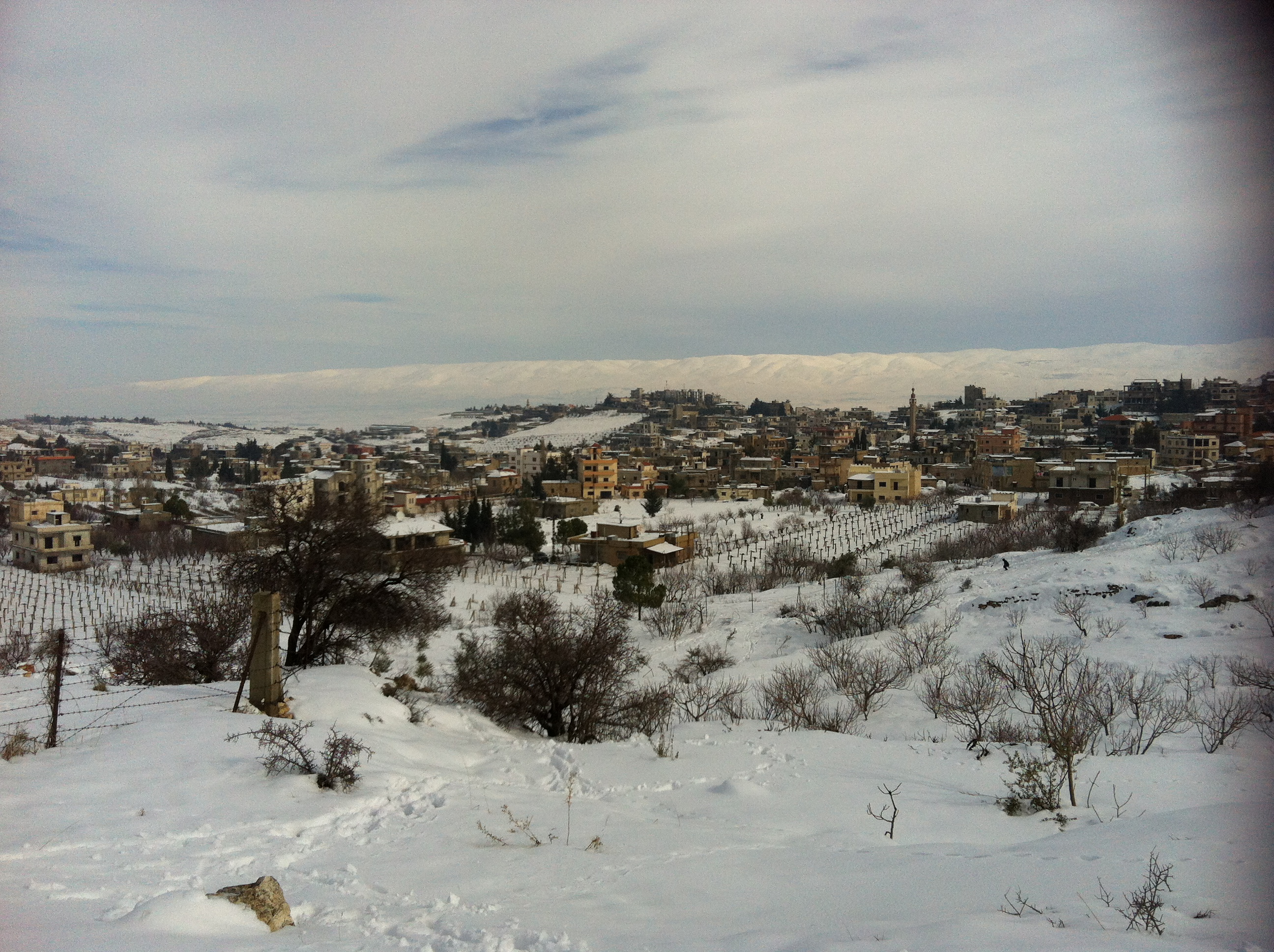 view 1